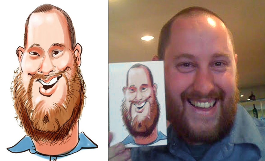 Caricature of Qfl247 (talk), including Qfl247 (talk) holding the picture for comparison.